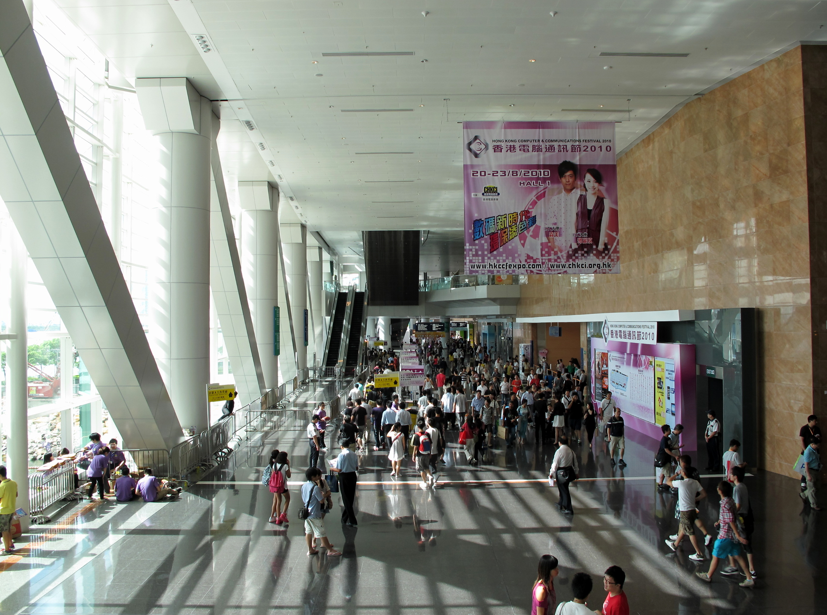 HKCEC New Wings Bridge Access